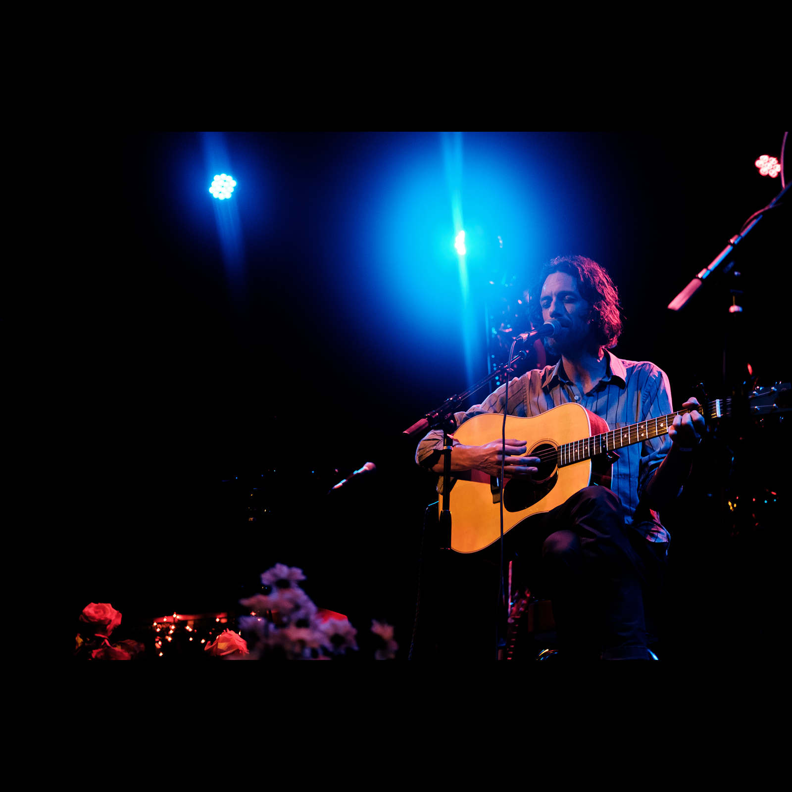 Jason Boesel playing a solo set in Los Angeles.